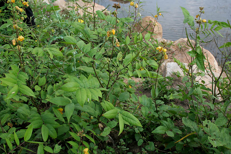 coffee senna, coffeeweed or Bamanan Cassia occidentalis in Narsapur, Andhra Pradesh, India.